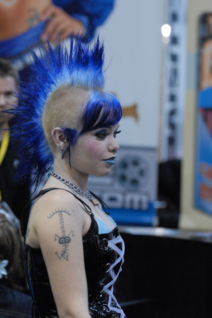 Daisy Tanks Adult Entertainment Expo 2008